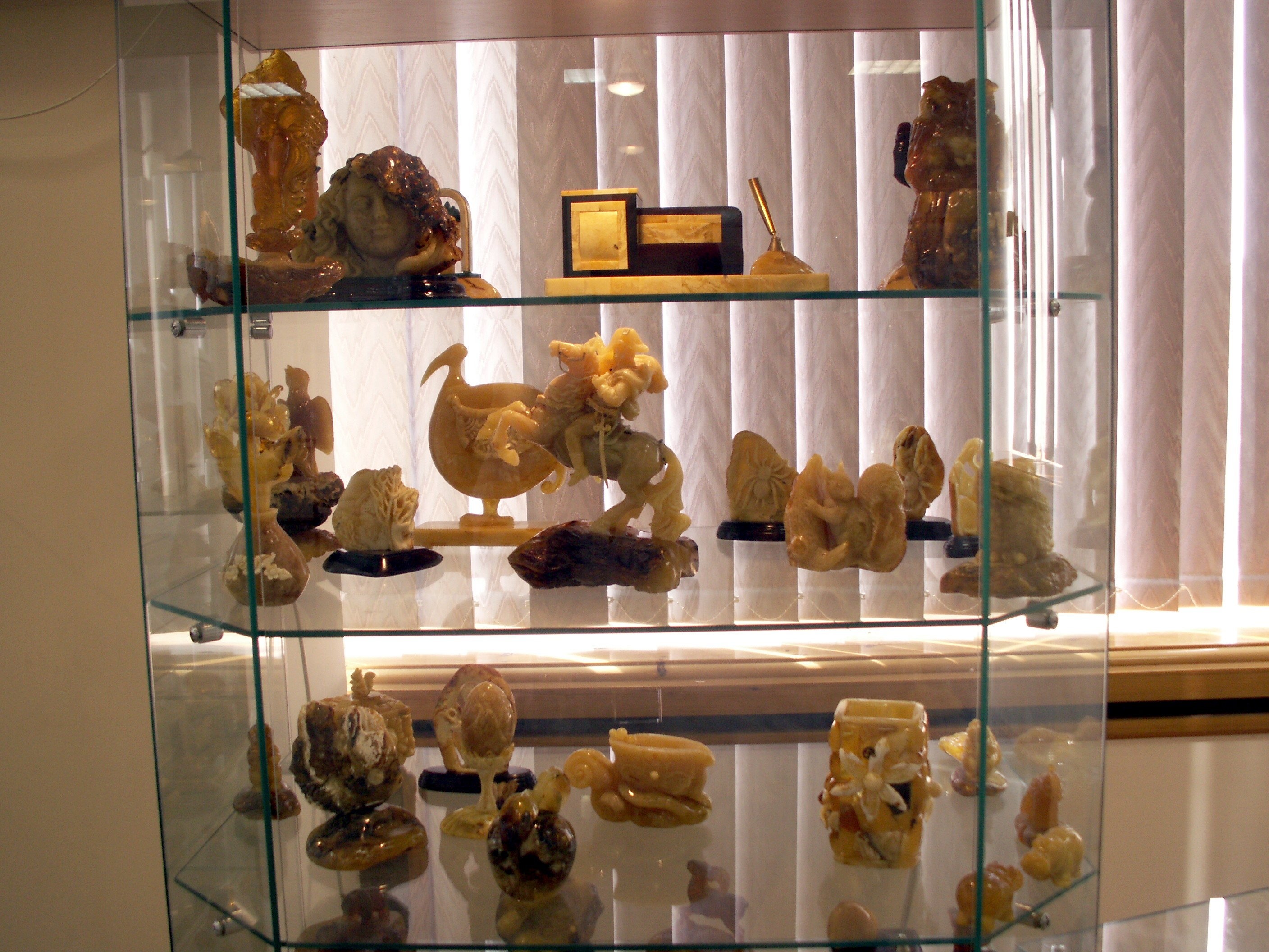 Yantarny amber factory museum in Kaliningrad oblast